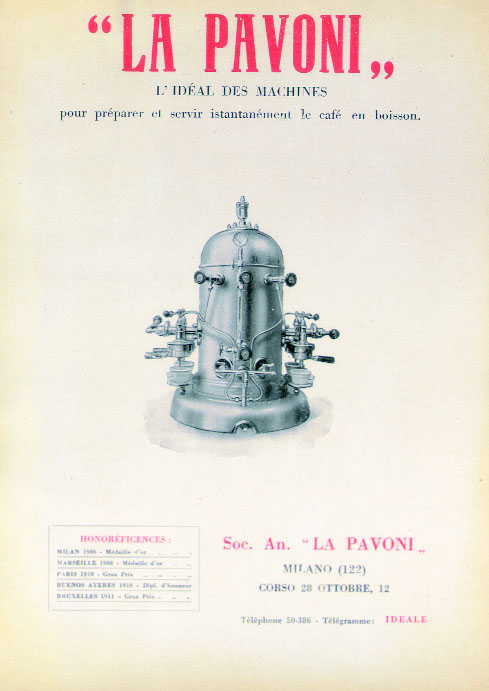 “Ideale” model instructions leaflet in French, 1912